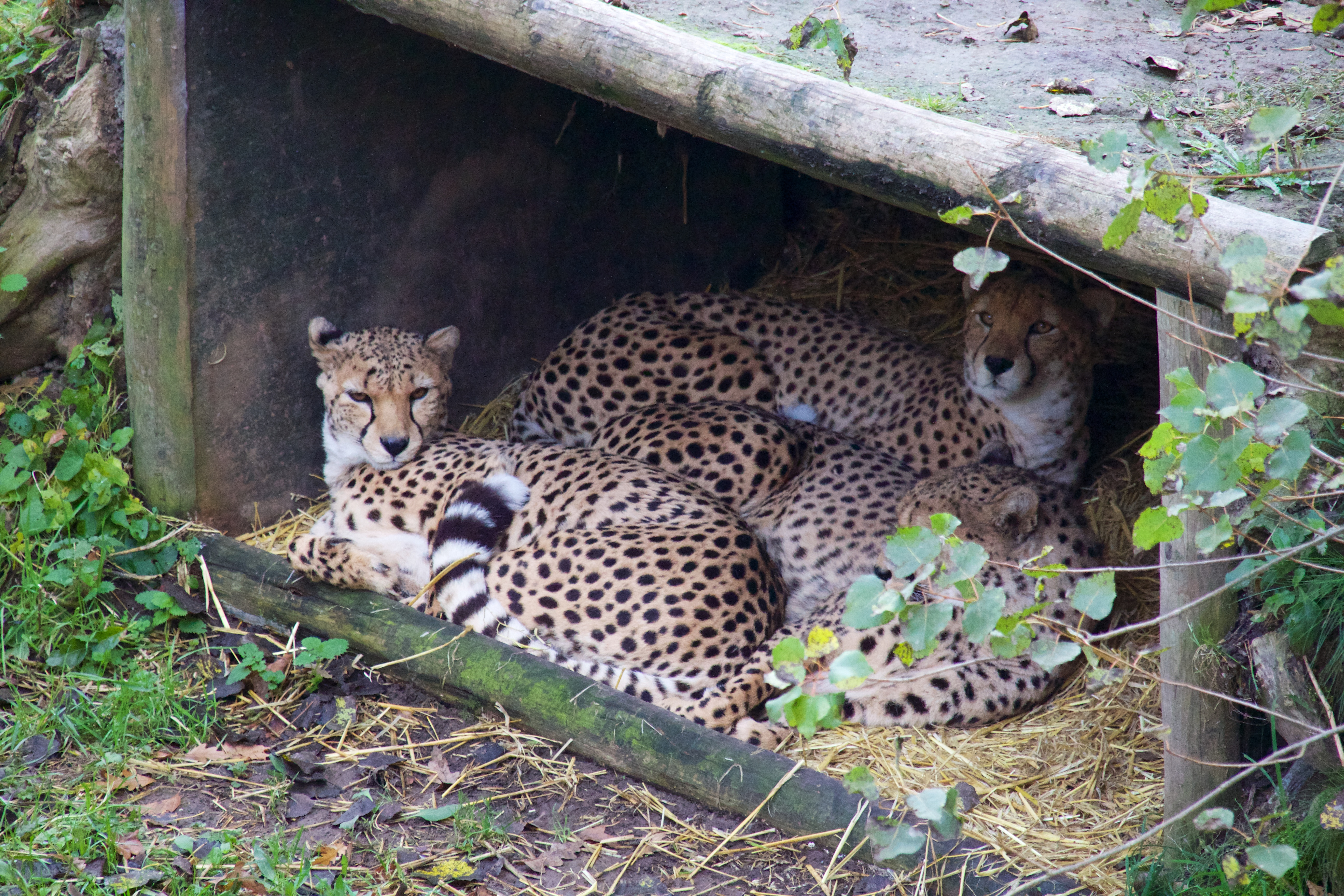 Cheetah. Acinonyx jubatus soemmeringii. At Chester Zoo.